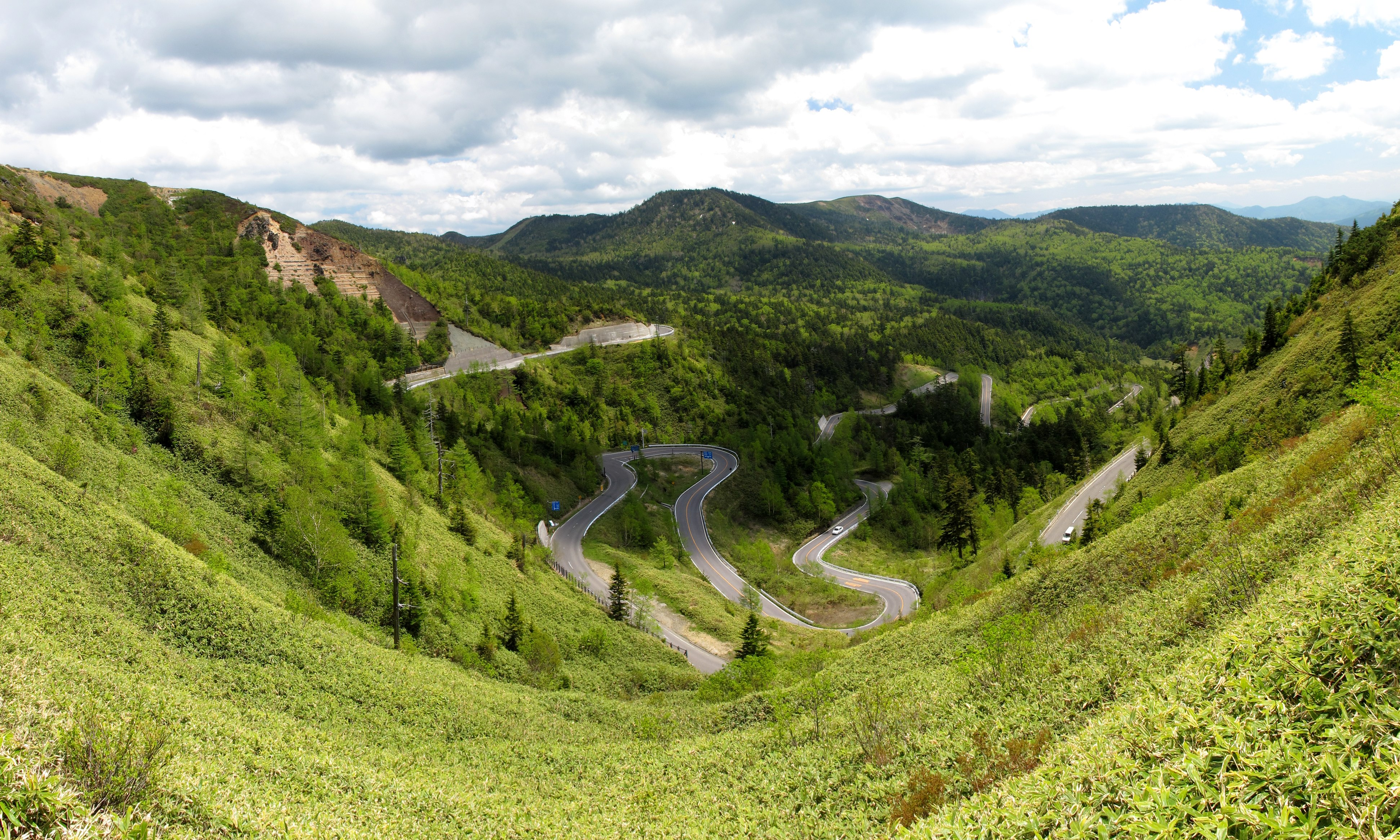 Mount Motoshirane seen from the NNW.